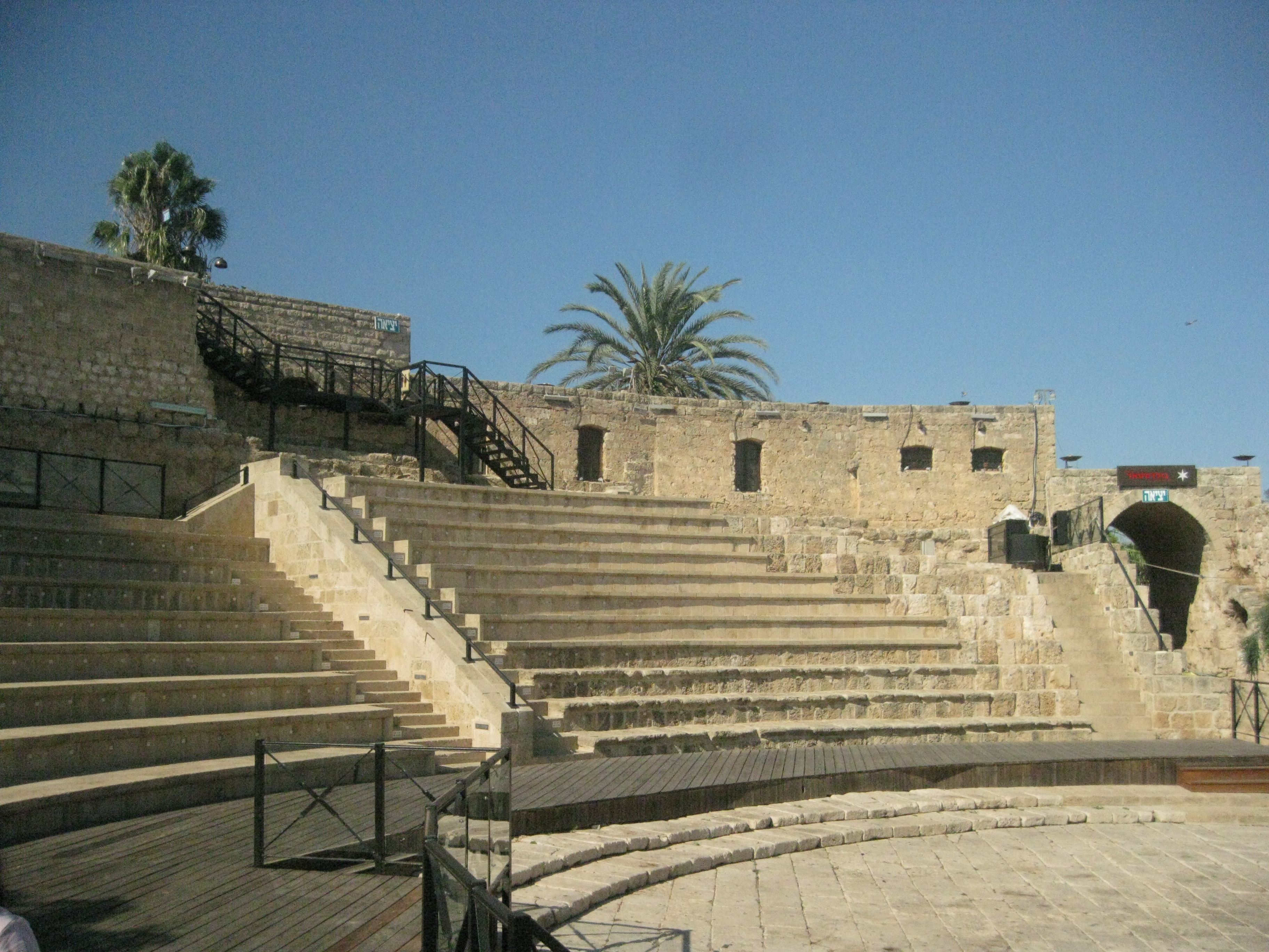 Binyamina near HaRishonim House.